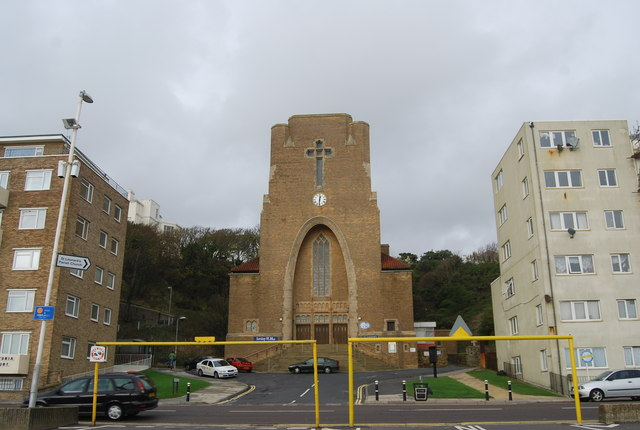 St Leonards Parish Church